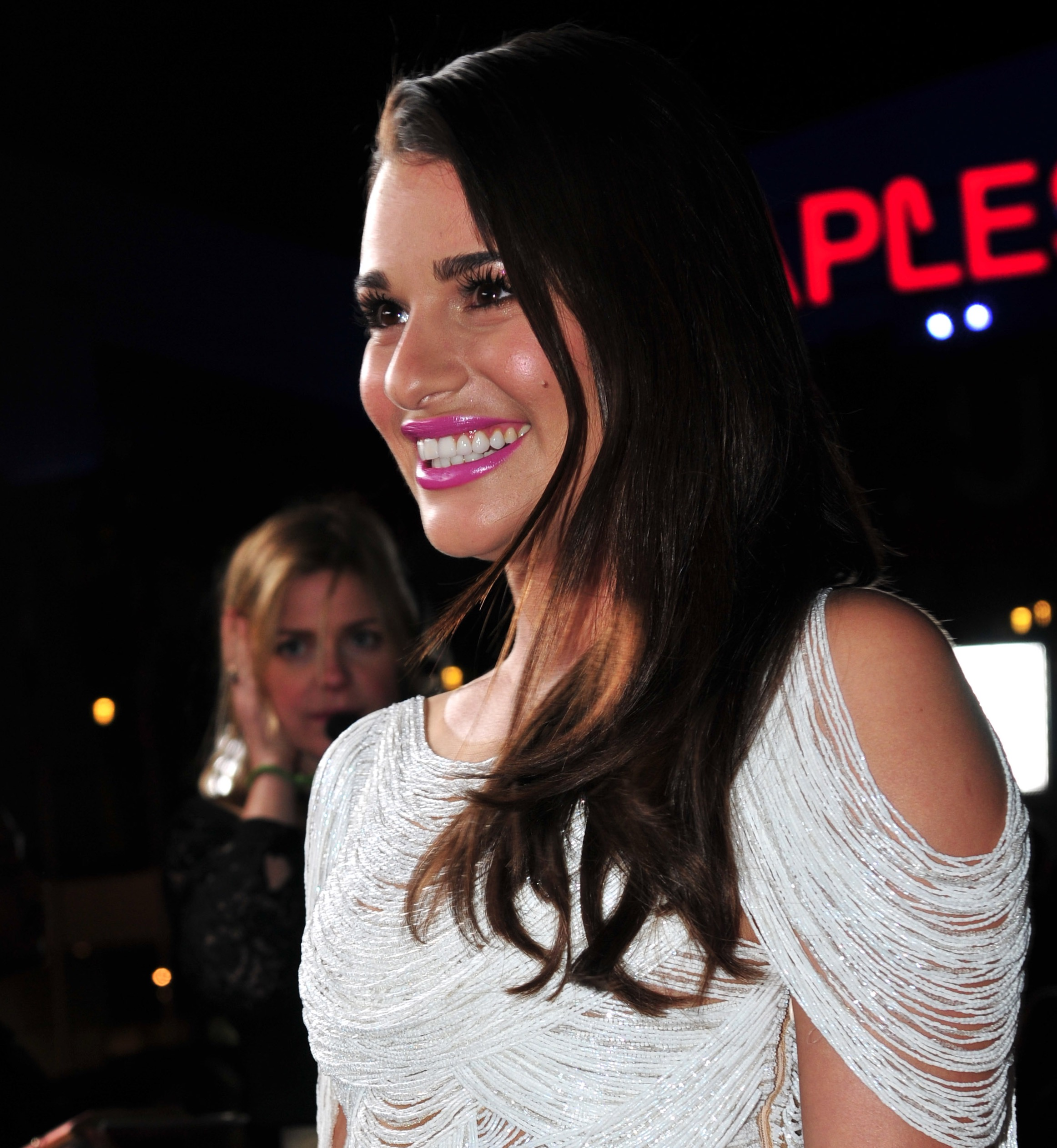 Lea Michele at the People's Choice Awards, January 11, 2012.